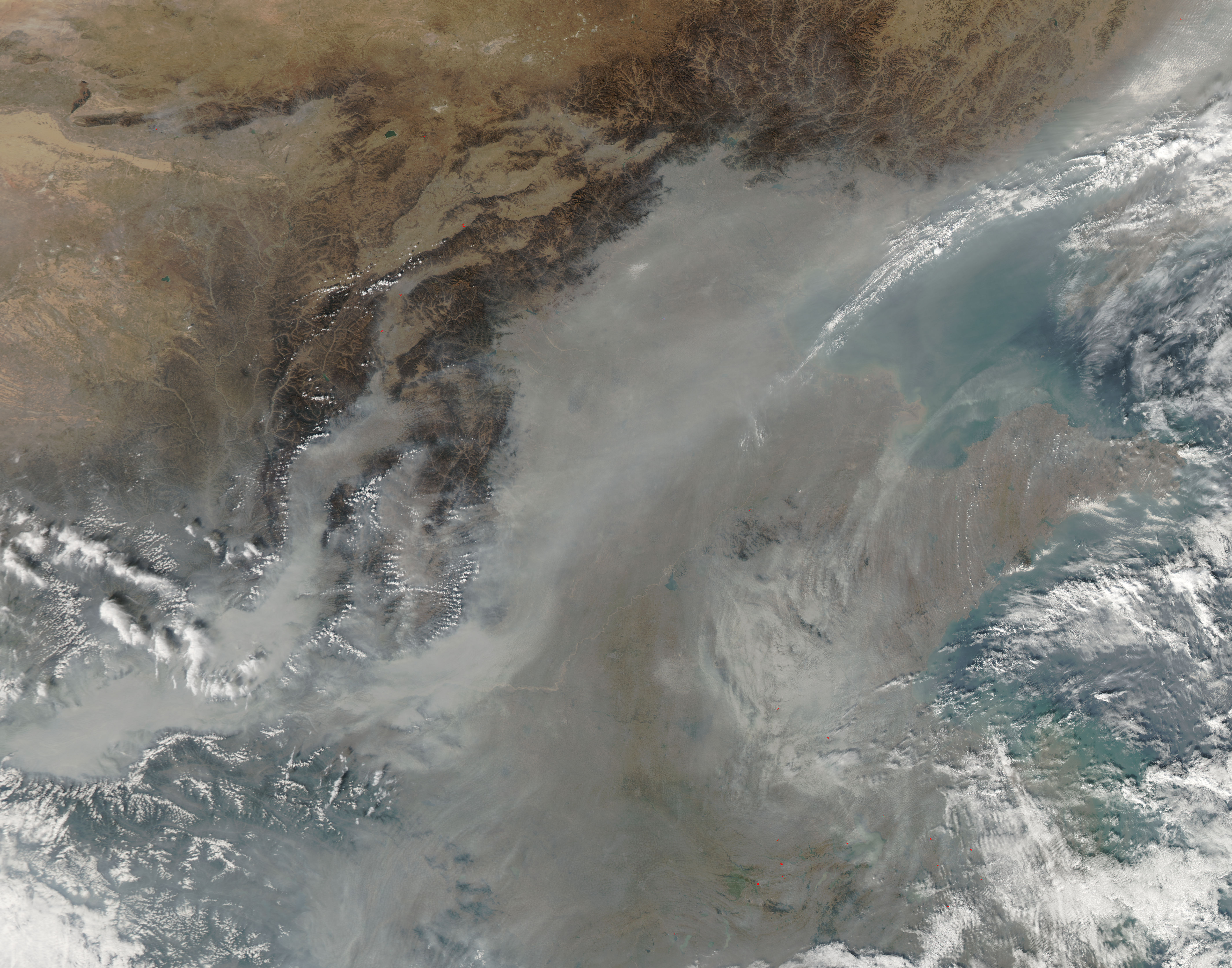 In this photo-like image, the thickest of the grey-brown haze conforms to the low-lying contours of the Yellow River Valley and the western half of the North China Plain near the Luliang Mountains.